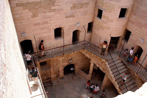 Tourists explore around the chateau d'if courtyard. By Michelle Davies (User:SholybonolySholybonoly 13:06, 30 August 2006 (UTC)). Original photo taken the 17 July 2005. Summary Tourists explore around the chateau d'if courtyard. By Michelle Davies (Sholybonoly 13:06, 30 August 2006 (UTC)). Original photo taken the 17 July 2005.